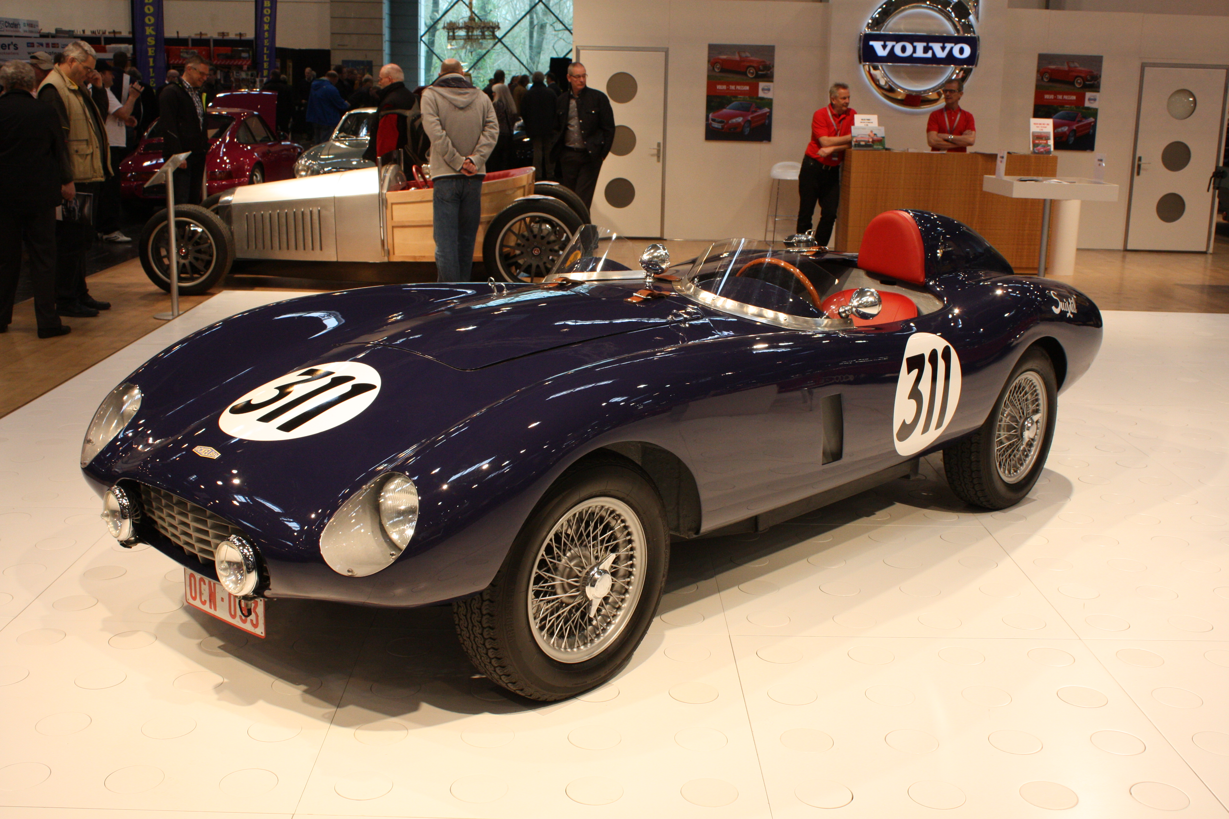 Ockelbo-Volvo, based on Austin Healey chassis, engine: Volvo B18B, 1953, seen at Techno Classica, Essen, Germany